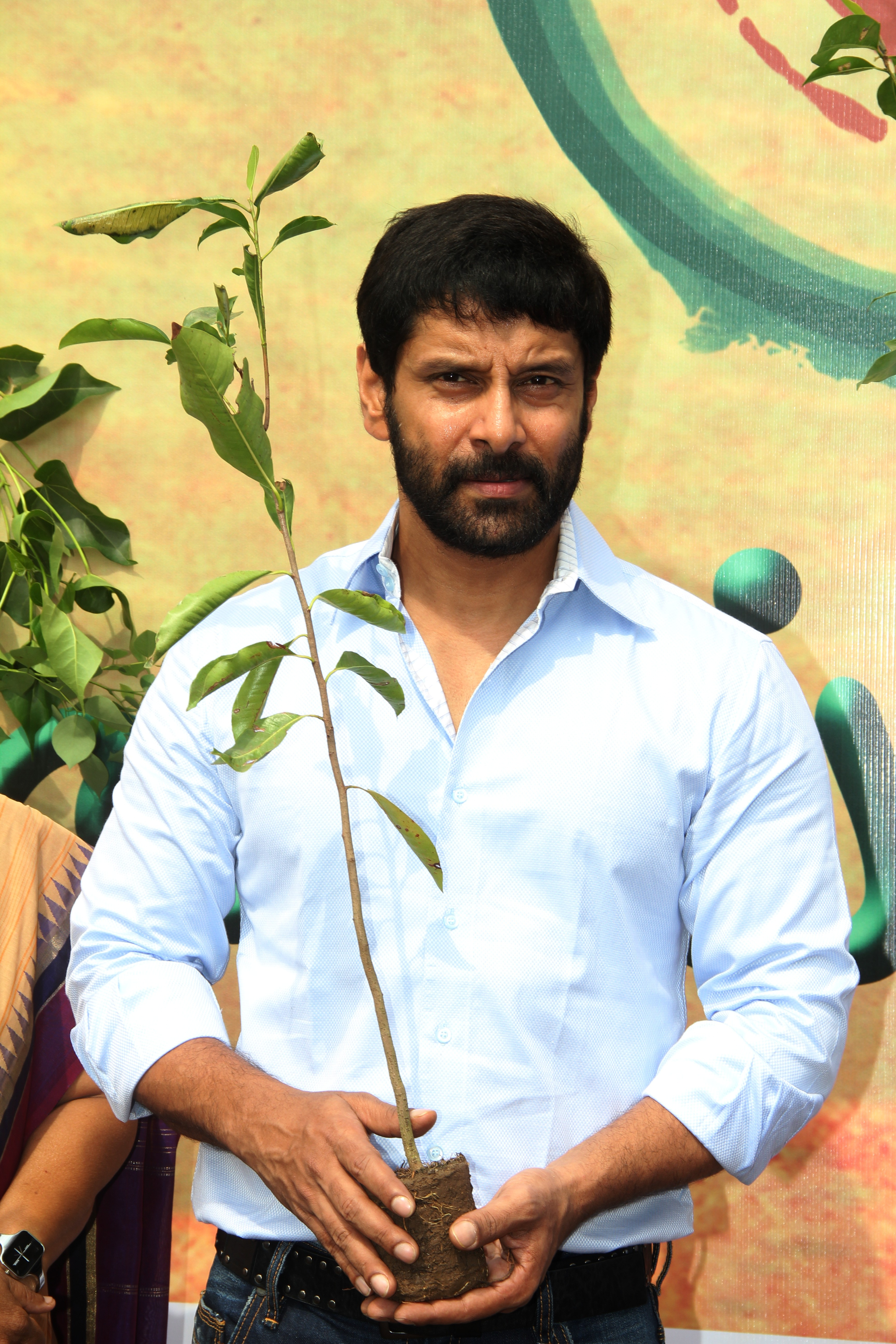 Tamil actor & UN Habitat Youth Envoy Vikram.